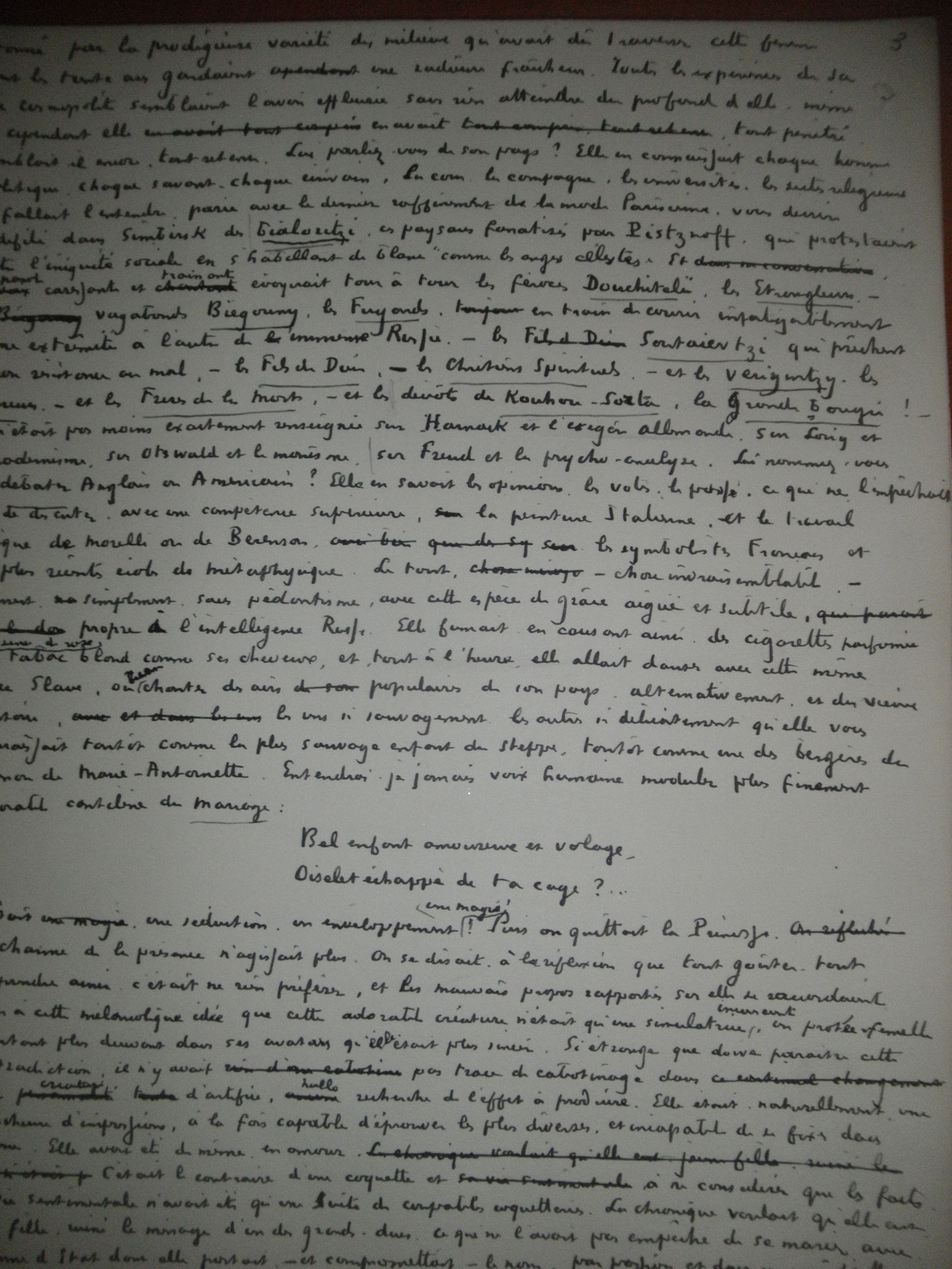 beau rôle 3